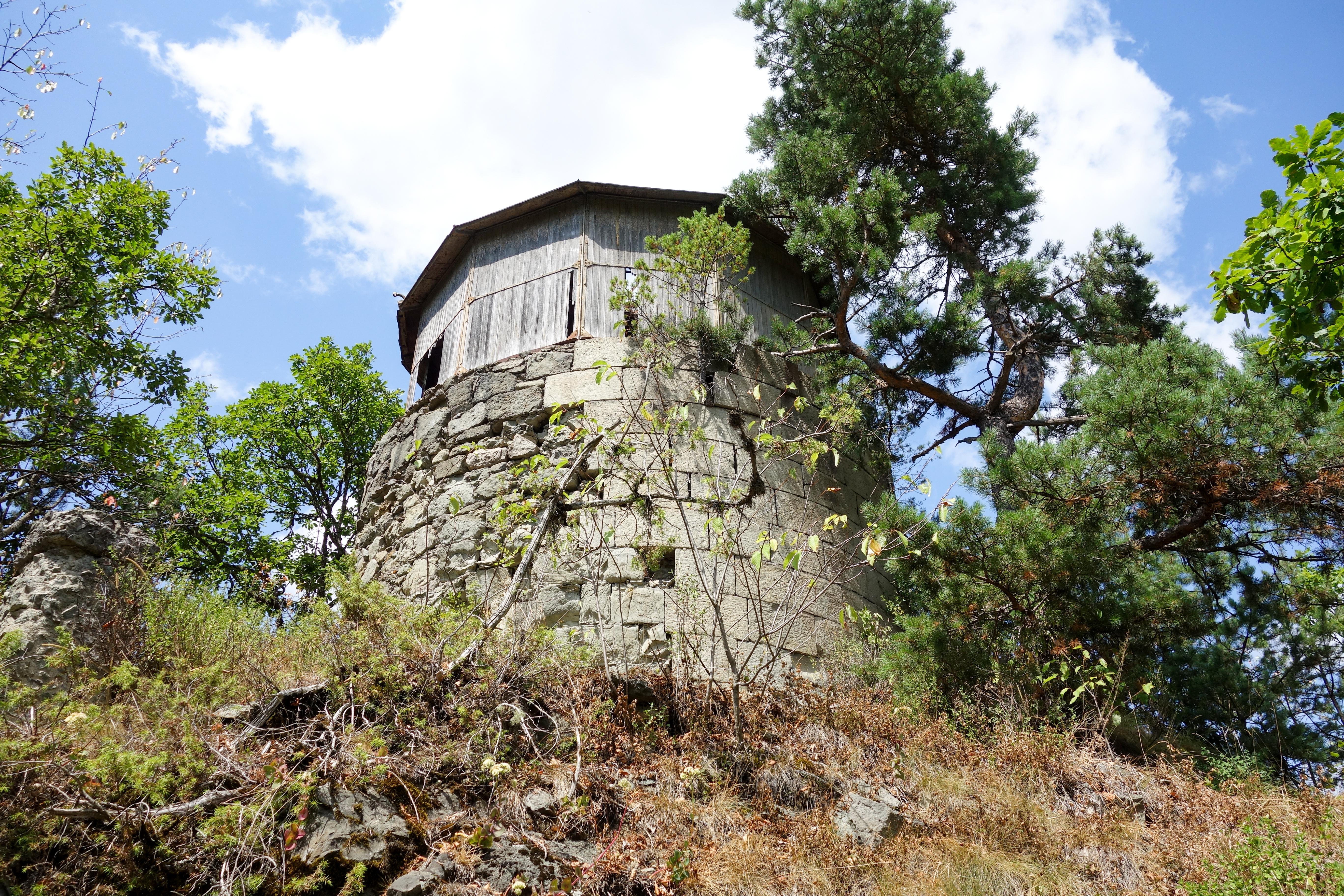 Glasenapp Tower, Abastumani, Adigeni Municipality, Georgia